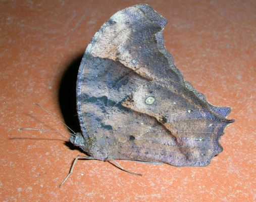 Melanitis leda , Satyrinae, Butterfly photographed in Bangalore, India.